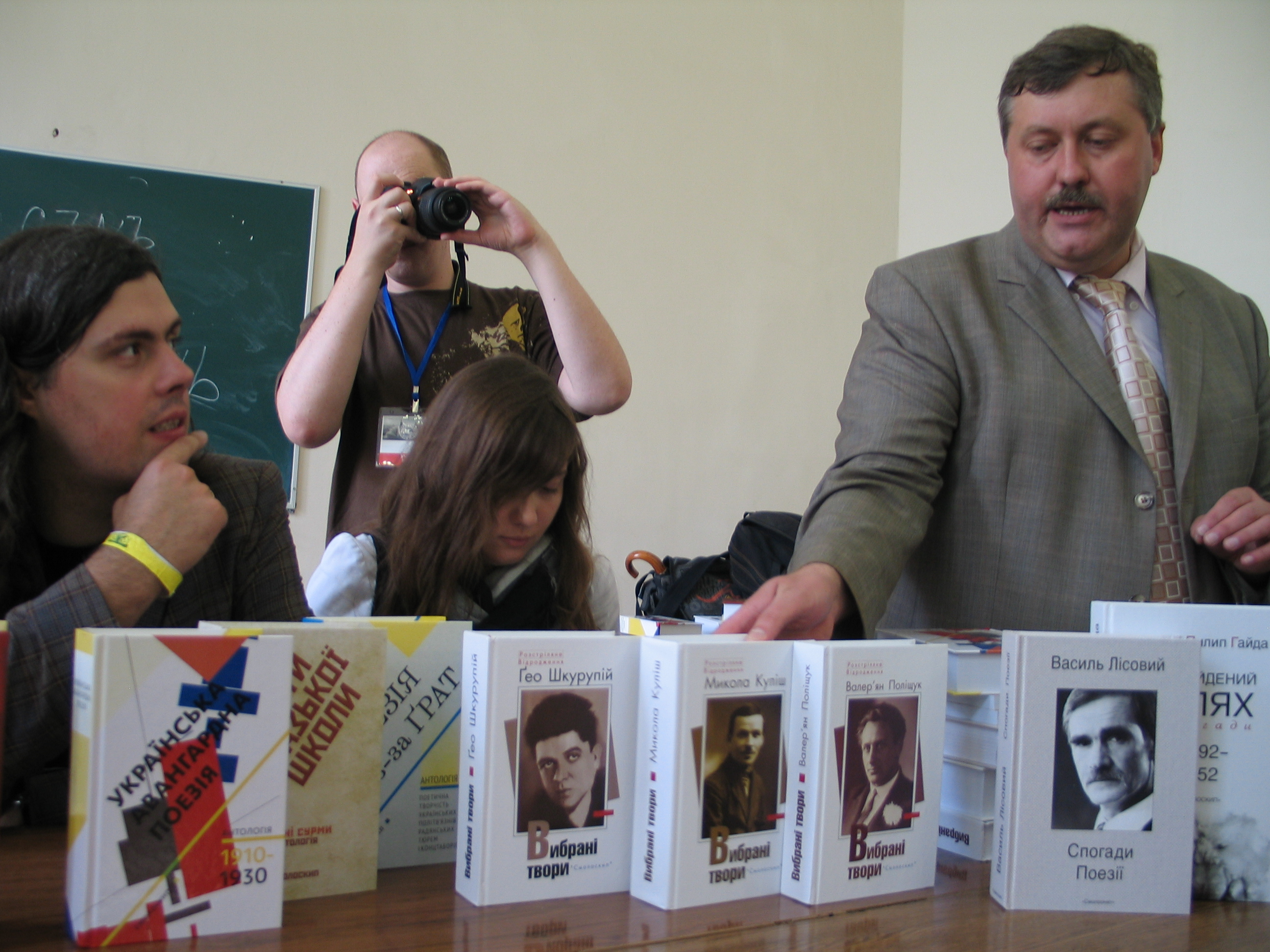 "Smoloskyp" Publishing House presentation at Lviv University during Publishers' Forum. Rostyslav Semkiv, the director, is speaking. Next to him (from right to left) are sitting Yulia Stakhivska and Oleh Kotsarev, the poets and compilers of the anthology of Ukrainian avantgarde poetry.